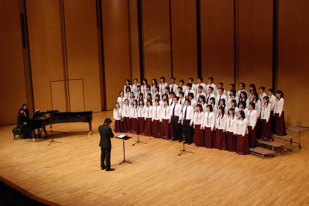 CU Chorus Live in Concert, 2007 April 07